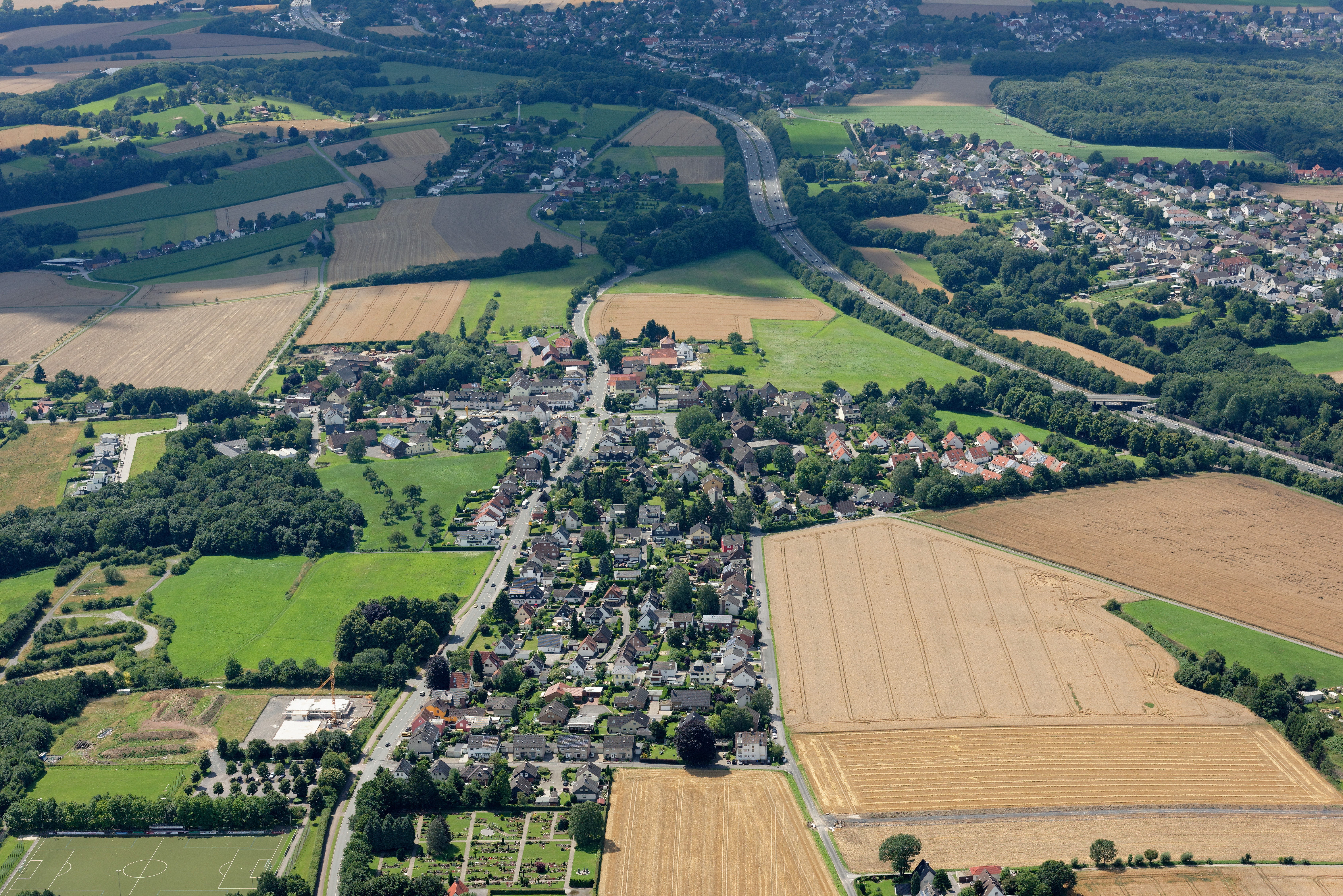 The making of this document was supported by the Community-Budget of Wikimedia Germany. Hengsen, rechts A 1, Blick Richtung Südwesten